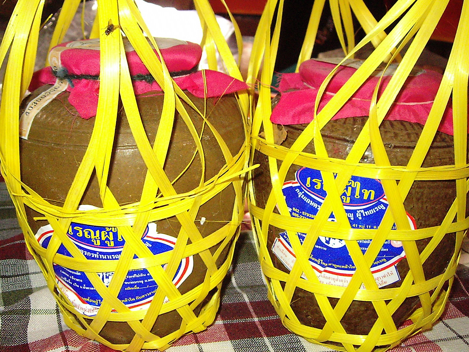 LaoU-01c Lao-U Cash-and-Carry Do-it-yourself sato